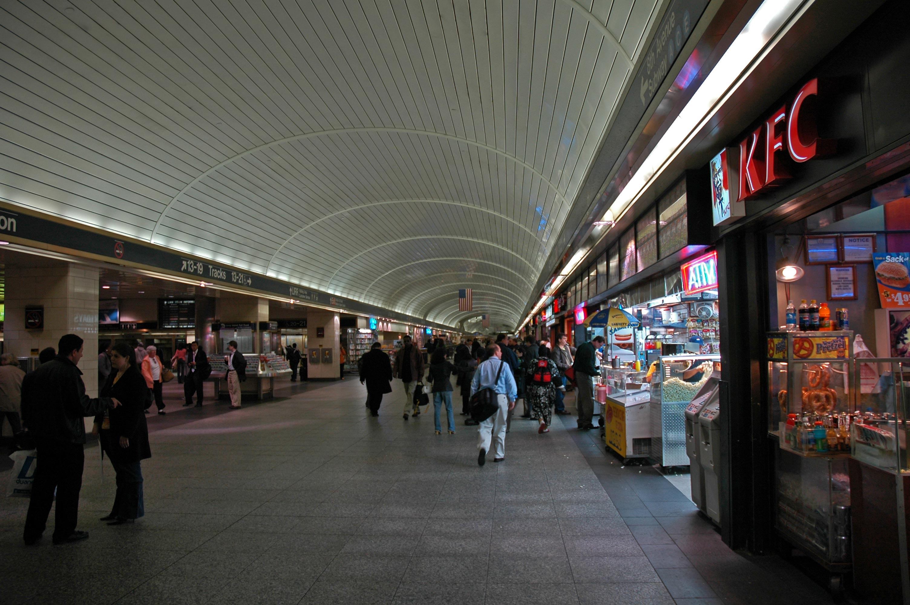 Pennsylvania Station, New York. LIRR concourse.